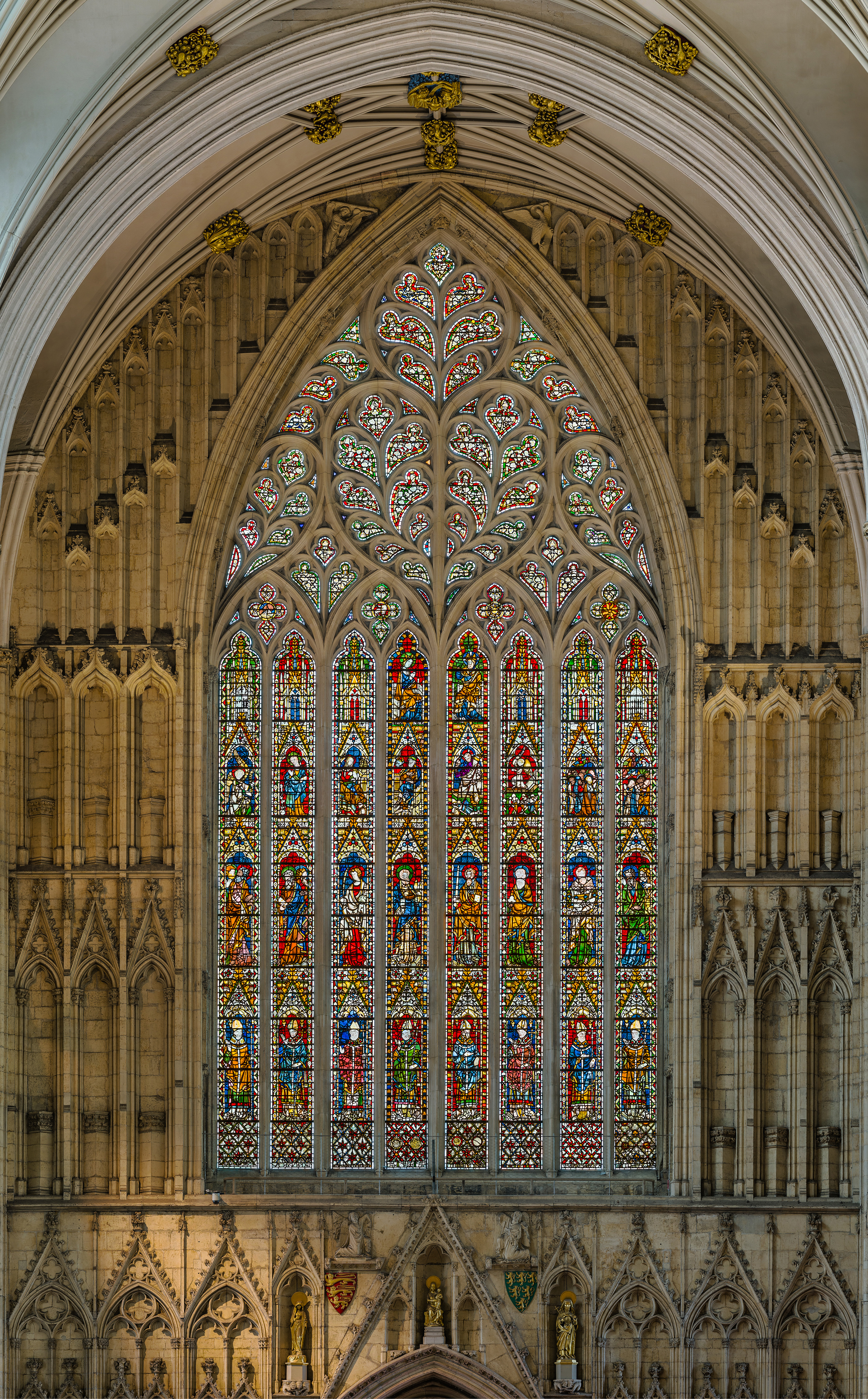 The west window of York Minster in North Yorkshire, England.